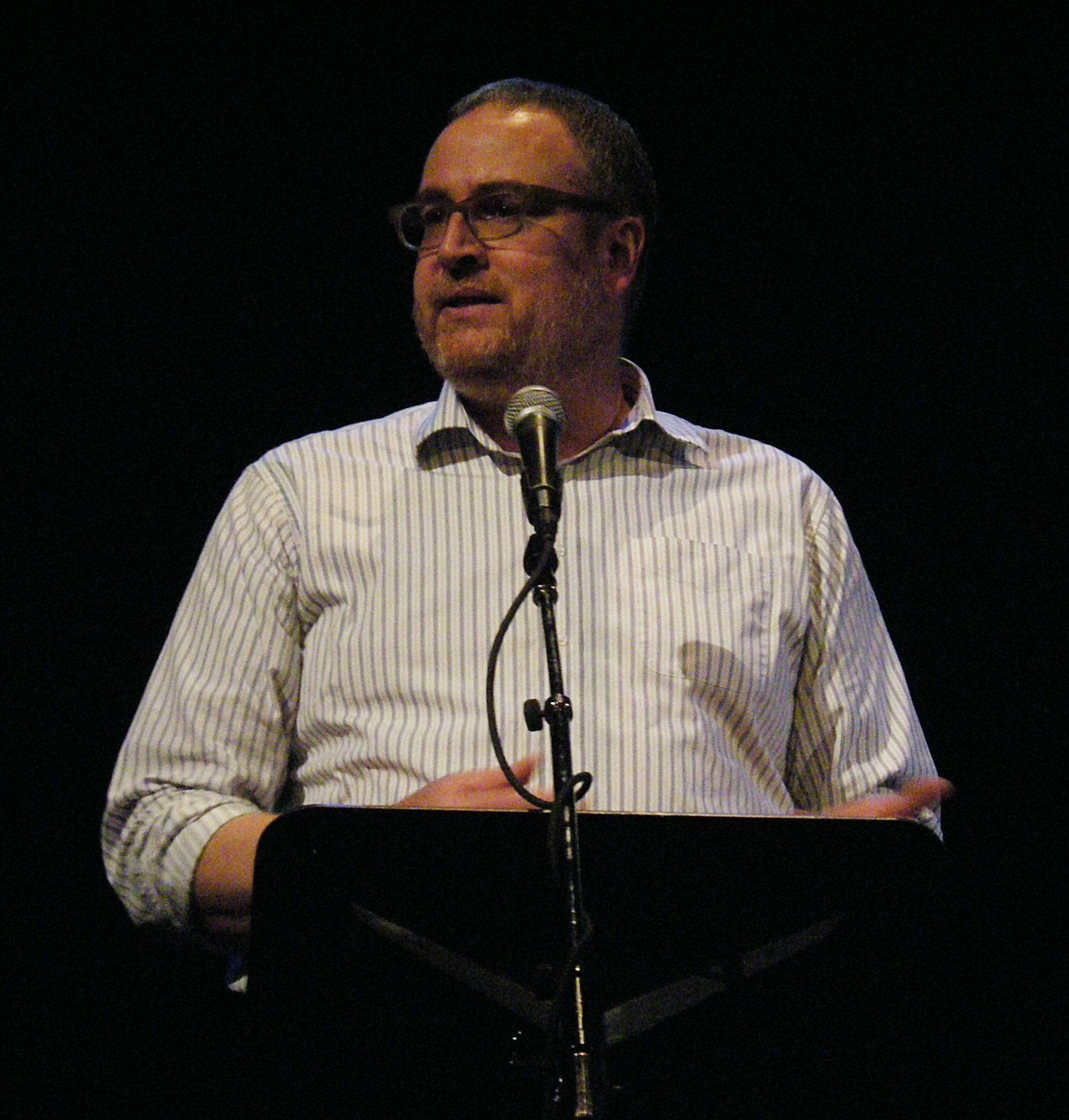 Tom Mara, Executive Director/CEO of radio station KEXP, at the launch of "Seattle, City of Music", Paramount Theater, Seattle, Washington.